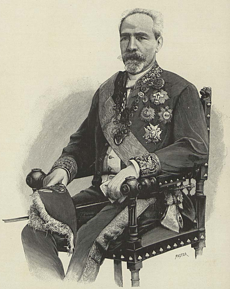 Tomás Ribeiro, in an engraving by Francisco Pastor.